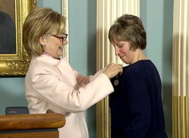 Secretary of State Hillary Rodham Clinton pins the Department of State Award for Heroism on Principal Officer Lynne Tracy on December 7, 2009 in the Treaty Room